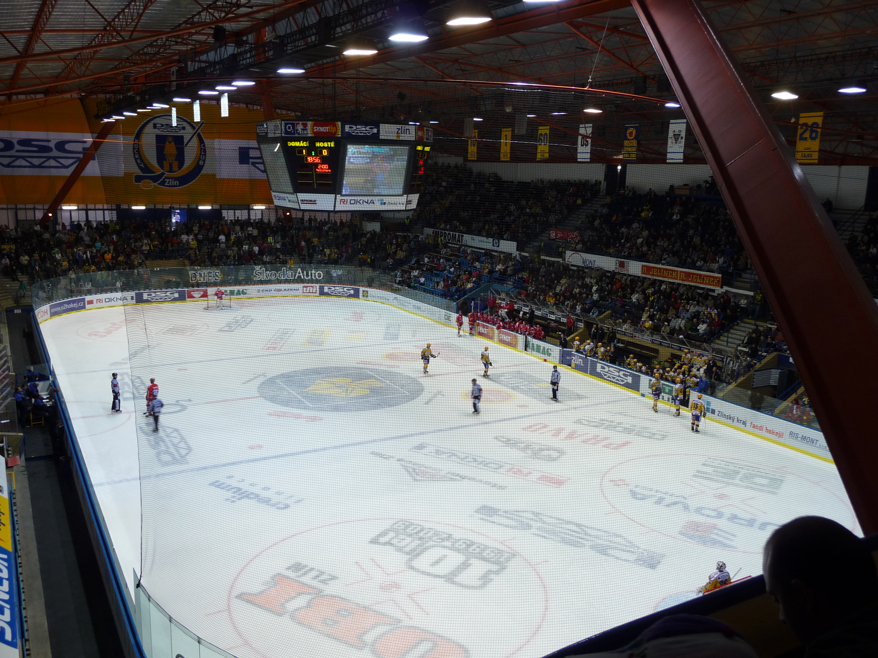 PSG Zlín vs. HC Mountfield, Zimní stadion Luďka Čajky